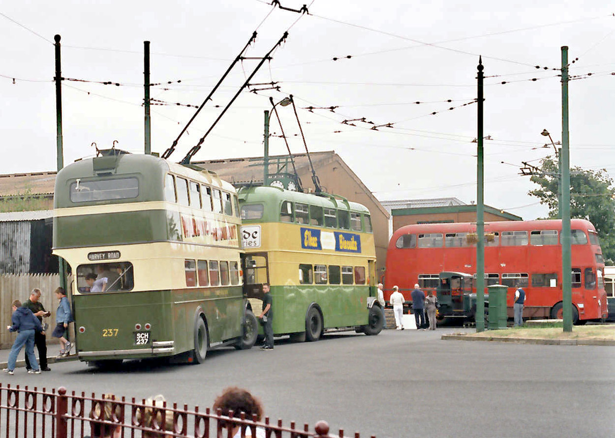 Trolleybuses at the Black Country Living Museum. The rear (dark green and cream) vehicle is from Derby and the front (light green and yellow) vehicle is from Wolverhampton. Both were built by Sunbeam in Wolverhampton with bodywork by Charles Roe of Leeds. The red bus in the distance is a Midland Red (Birmingham Midland Motor Omnibus Company) motor bus.